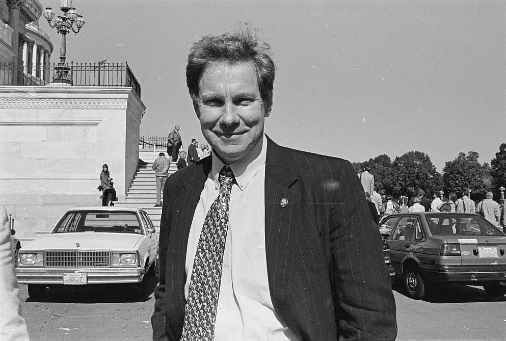 Republican U.S. Representative Tom Davis of Virginia, half-length portrait, standing, facing front, outside the east front of the U.S. Capito